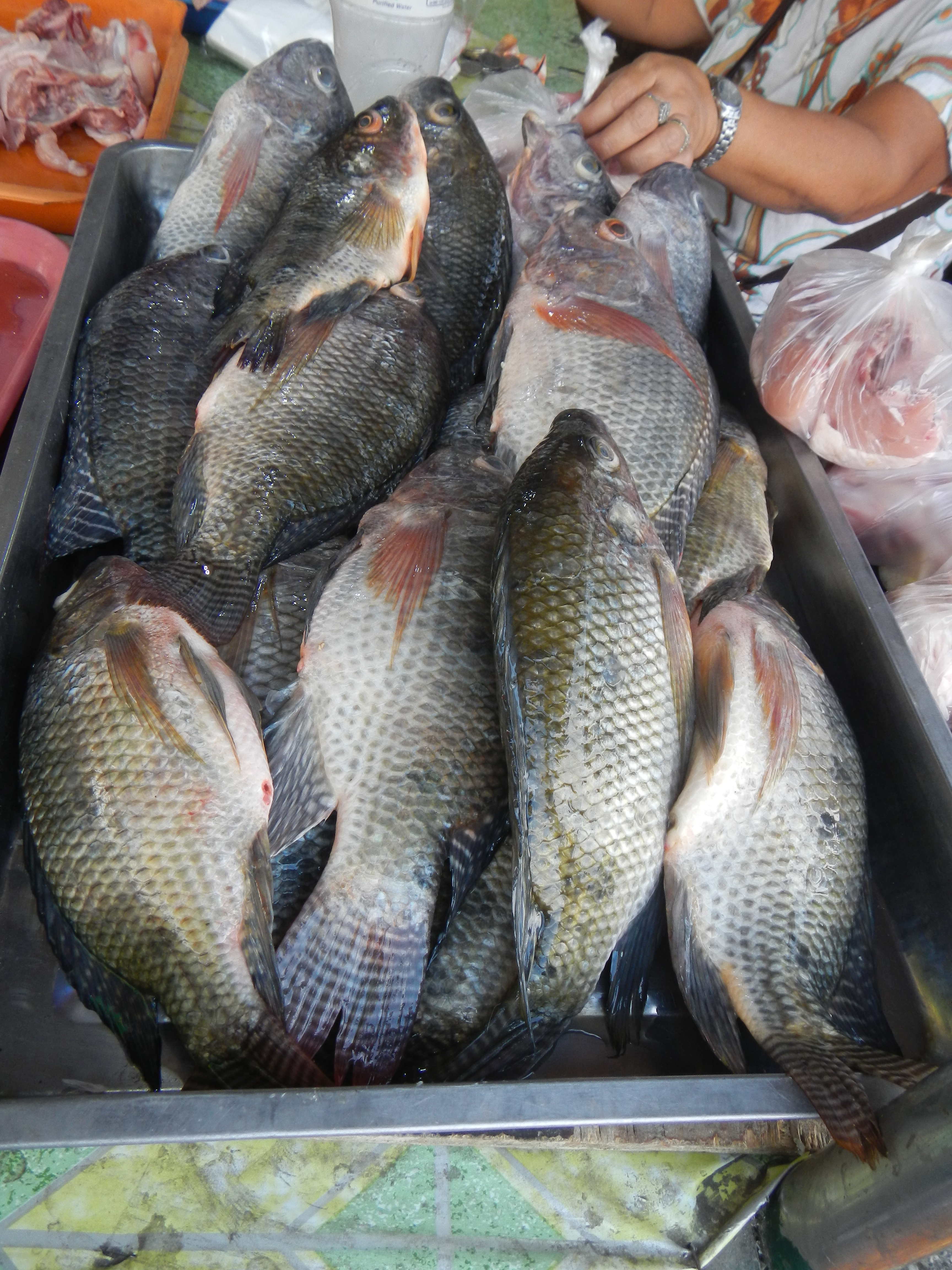 Barangay Bigte, Norzagaray, Bulacan (along the Bigte-San Mateo, Norzagaray, Bulacan Farm to Market Provincial Road and along the General Alejo G. Santos Highway (Angat-Norzagaray, Bulacan section) interconnecting with and from the Norzagaray, Bulacan Welcome arch located therein, including Republic Cement a CRH-Aboitiz Company, Norzagaray, Bulacan, the New Bigte Cockpit Arena beside Road 2 corners Road 5 and 10, Barangay Minuyan IV, Sapang Palay, City of San Jose del Monte, and the Santo Rosario Parish Church (Minuyan IV, San Jose del Monte, Bulacan).